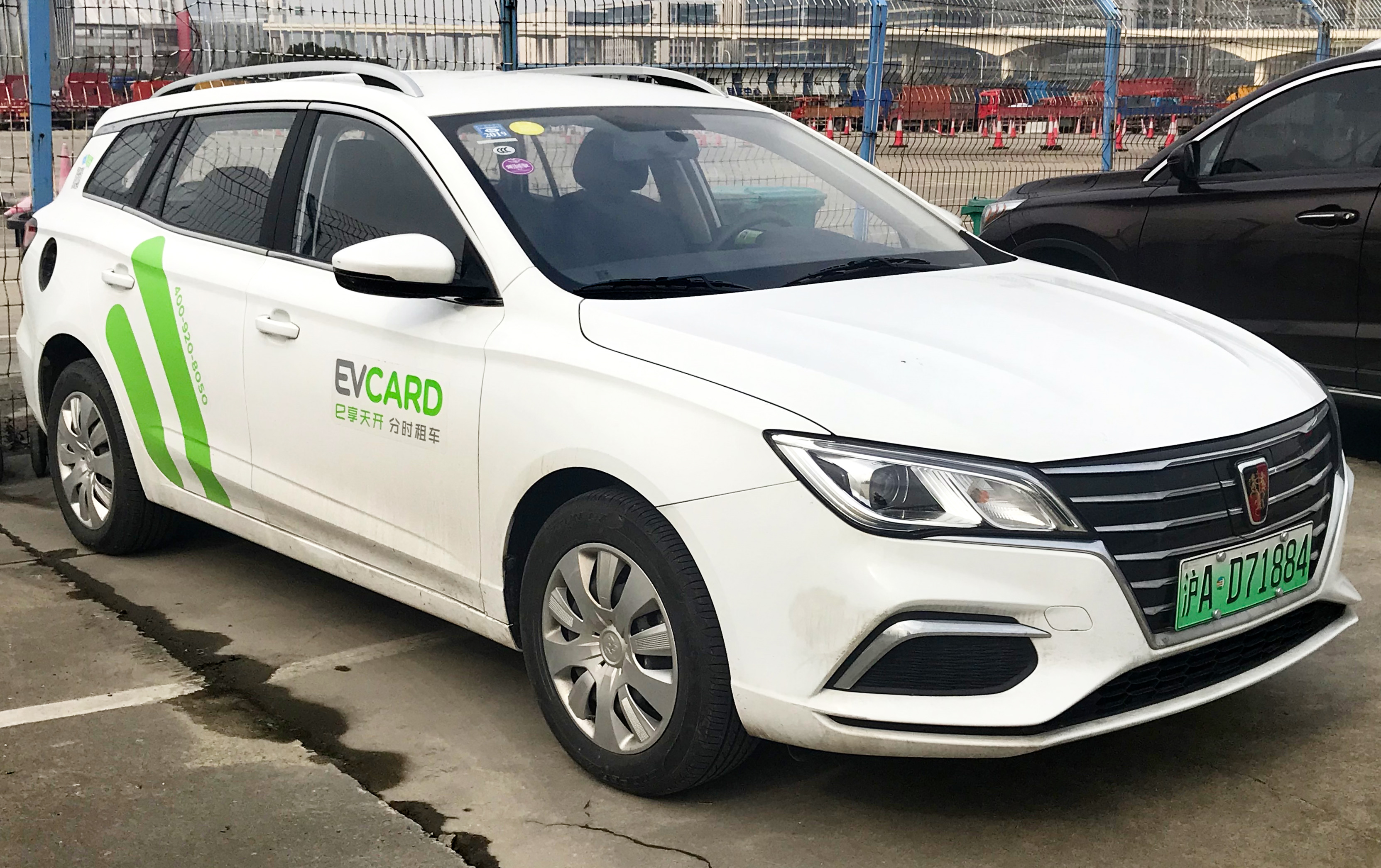 Roewe Ei5 EVCARD car share